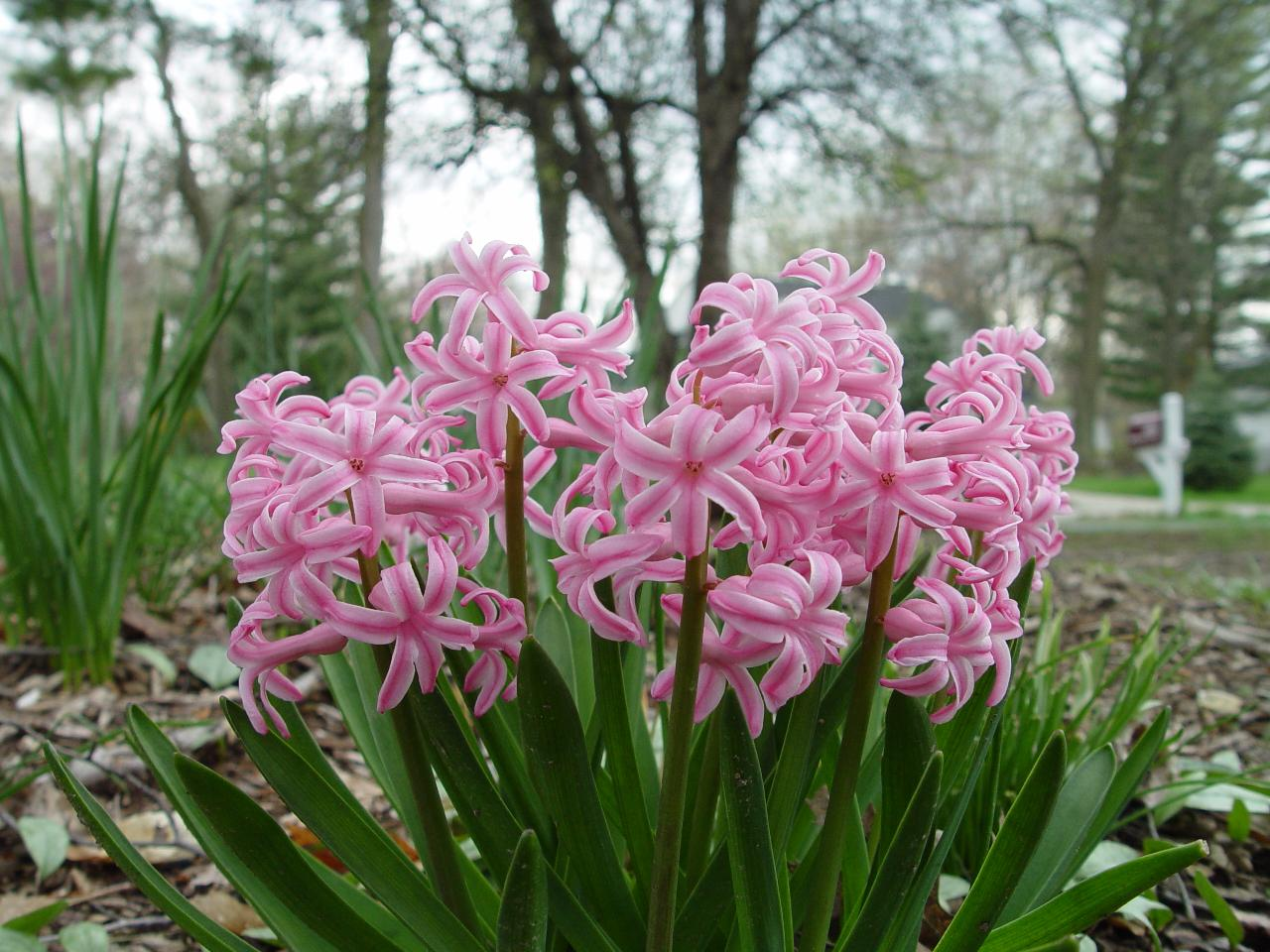 Flower Close Up